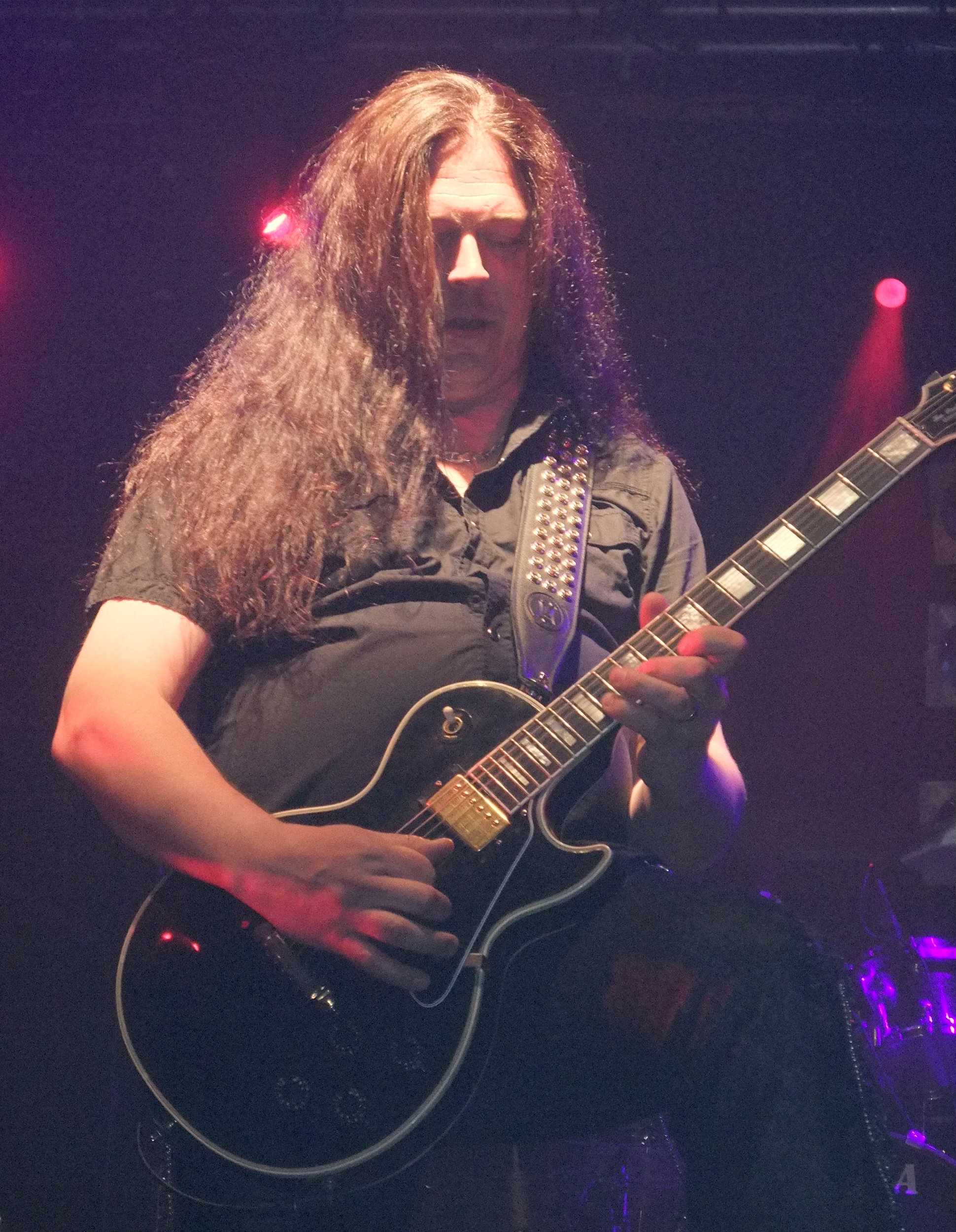 Pontus Norgren performing with Hammerfall at The Electric Ballroom in London, 6th May 2010